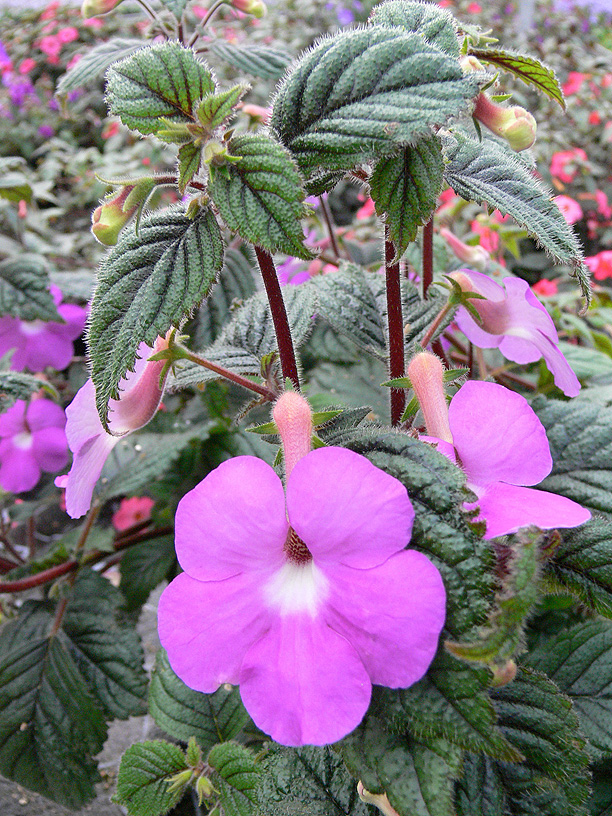 Achimenes patens 'Major', a cultivar selected from a species of rhizomatous, herbaceous, tender perennial plant